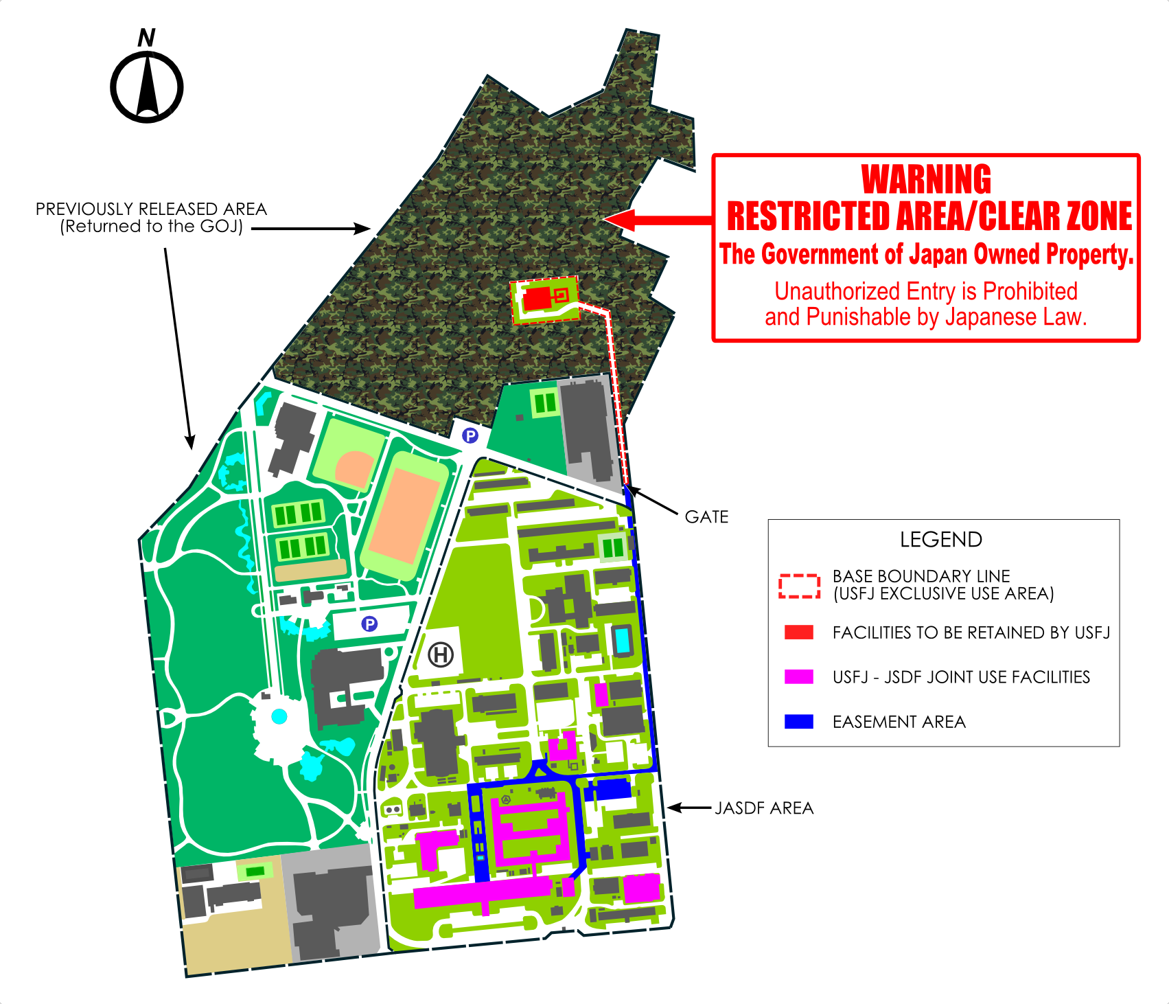 Fuchu Air Station site map